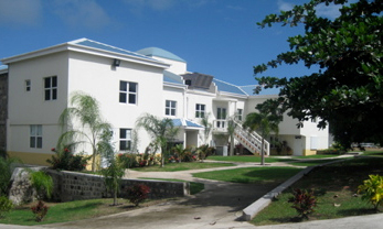 Windsor University School of Medicine Administration Building